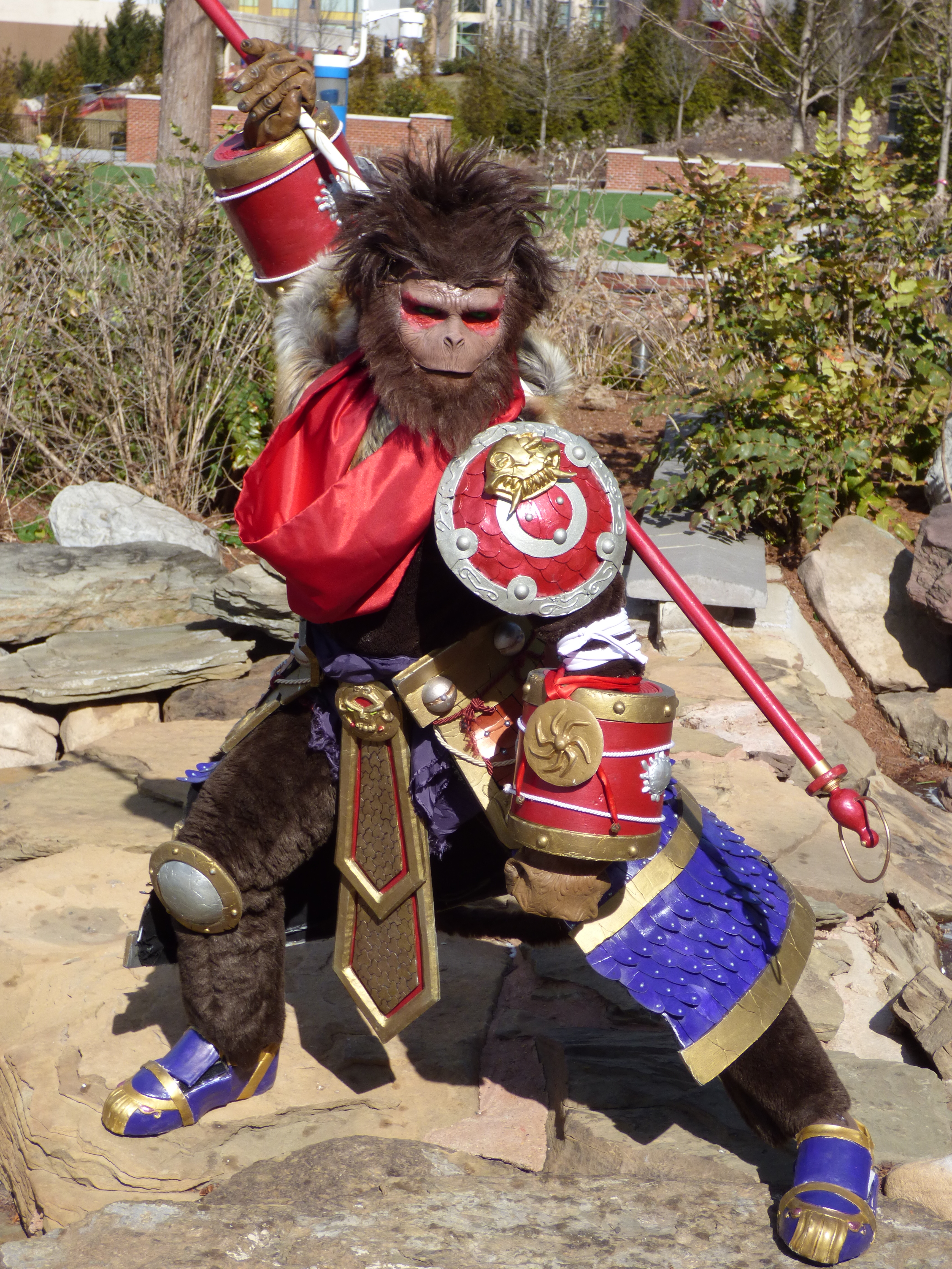 A cosplay of Wukong from League of Legends at Katsucon 2016 in Maryland, United States.